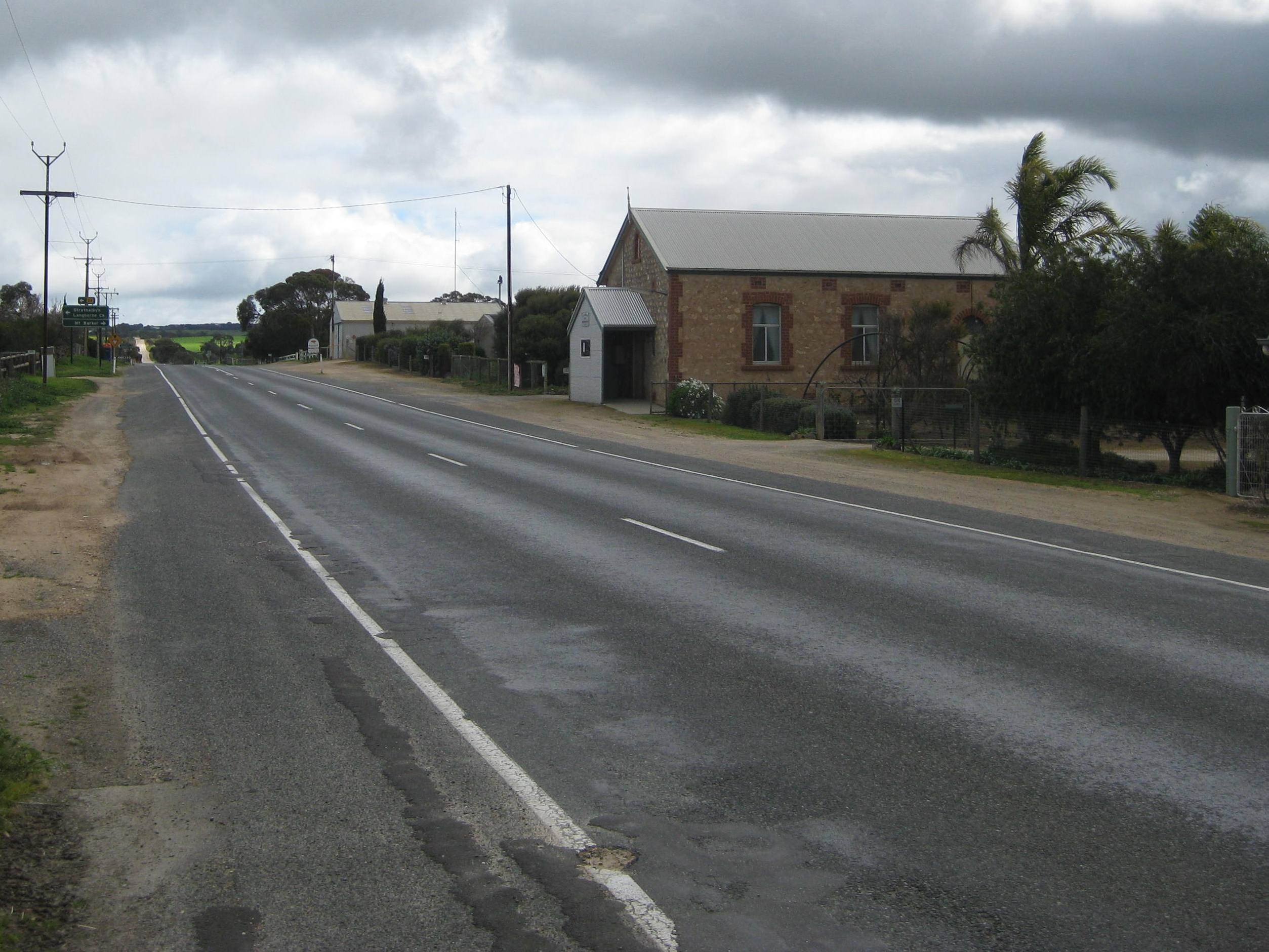 Main street of Woodchester, South Australia, with the intersection of the road from Strathalbyn to Mount Barker, via Wistow in the distance.